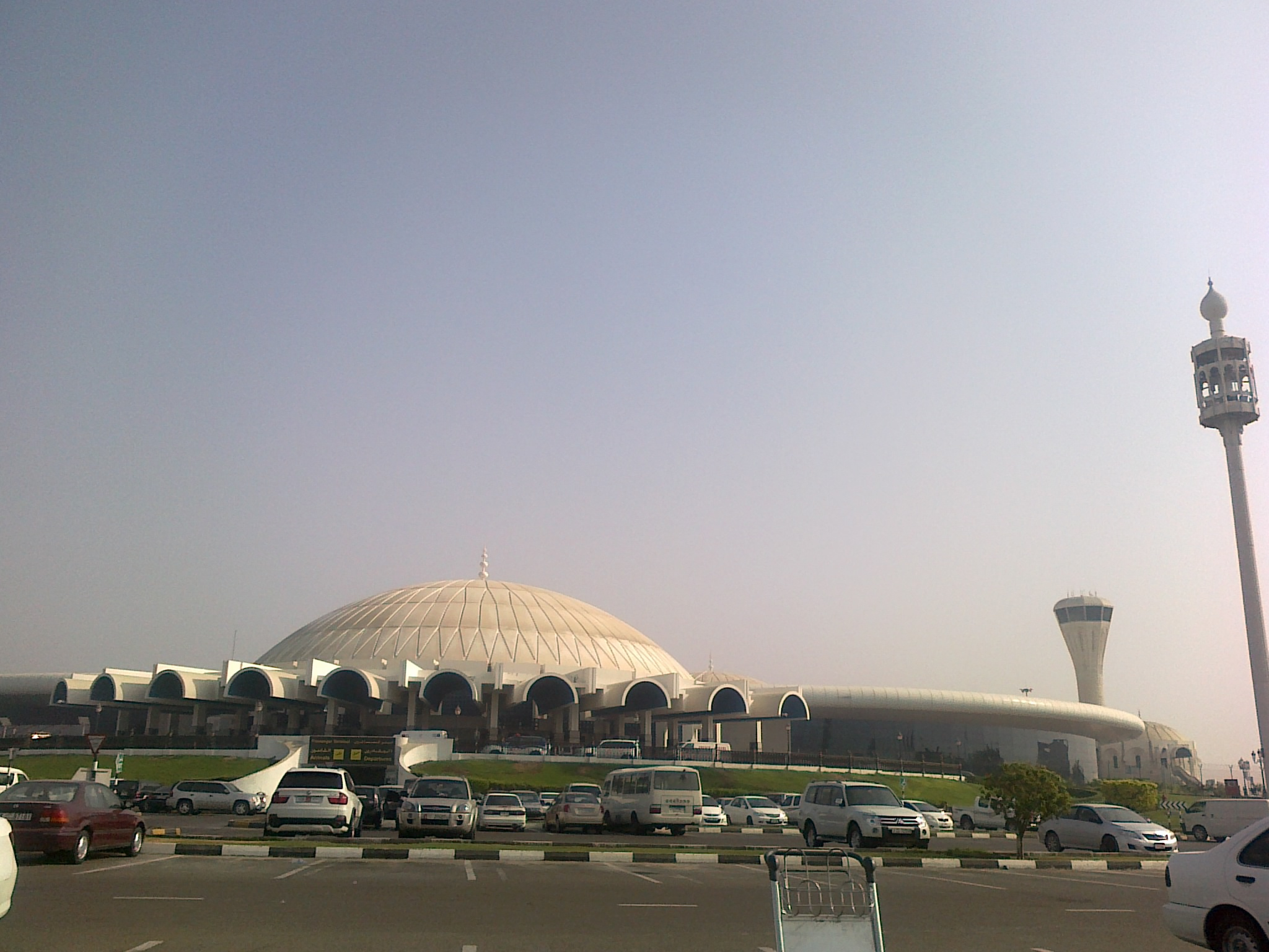 Sharjah International Airport